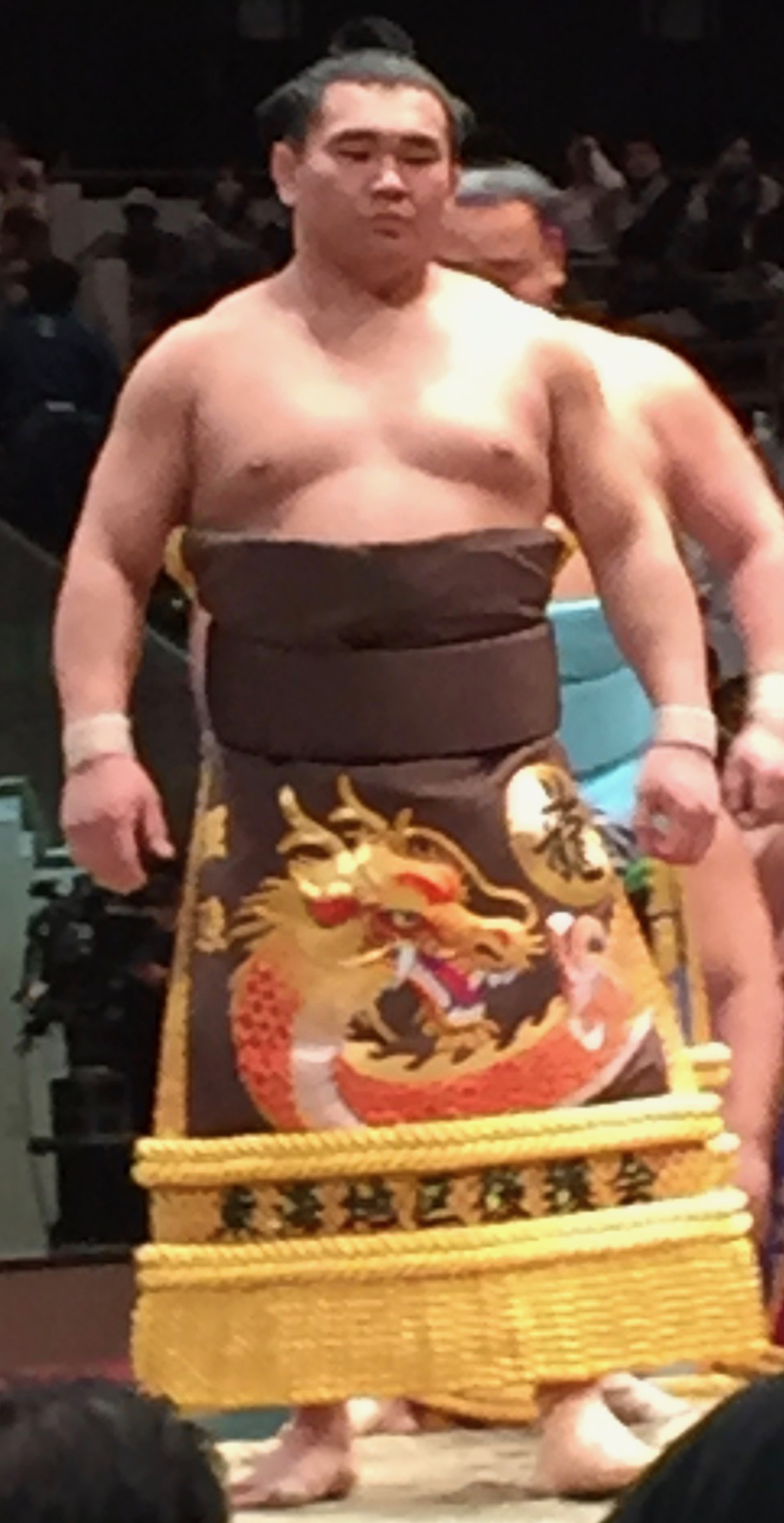 taken at Jan 2017 tournament